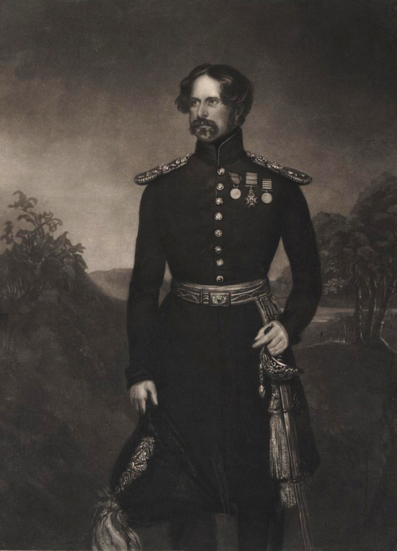 Portrait of Sir James Charles Chatterton, 3rd Baronet (1794–1874)